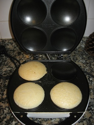 This is personal photo of my own Tostiarepa.